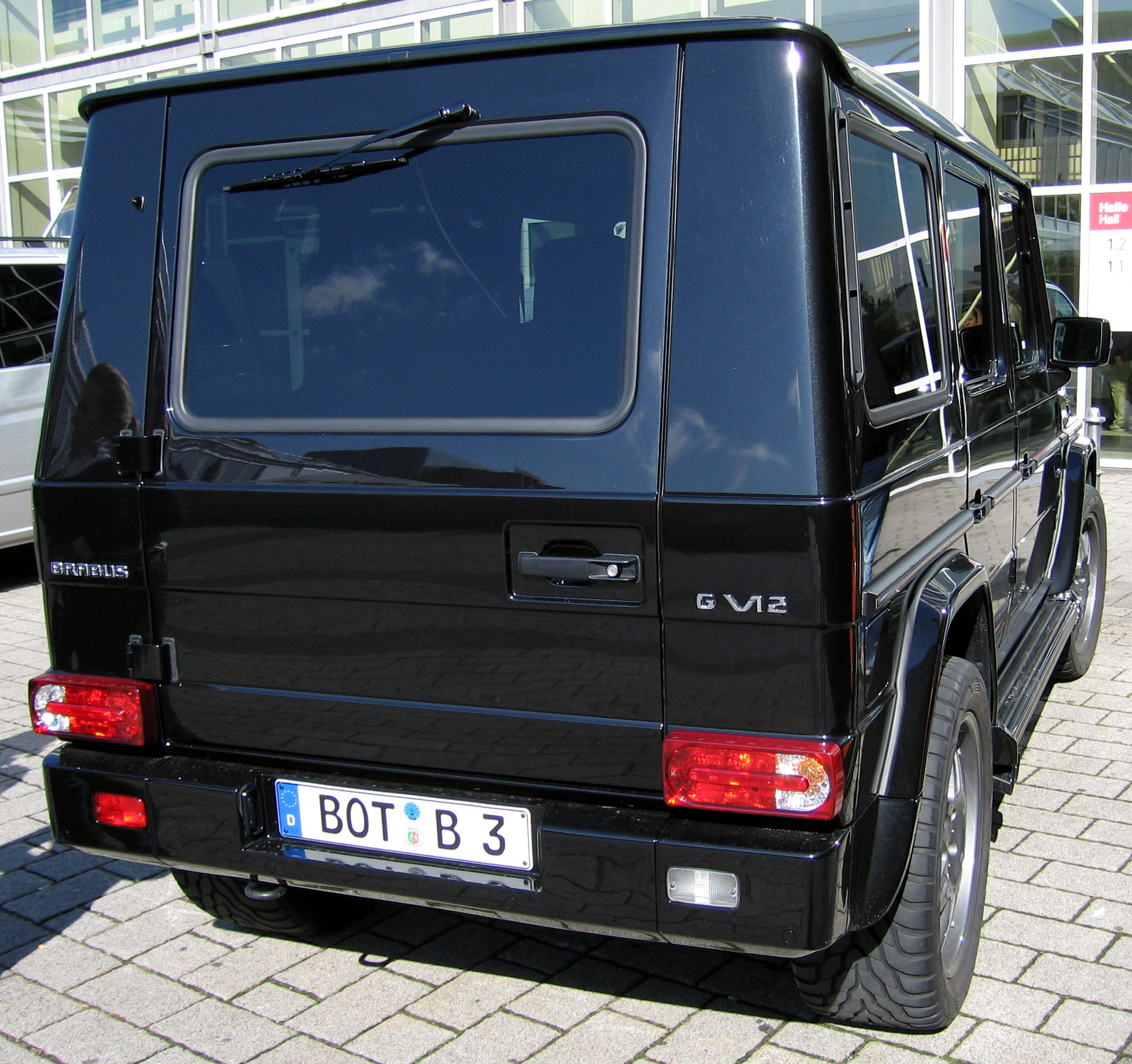 Brabus G V12 Biturbo at the IAA 2007